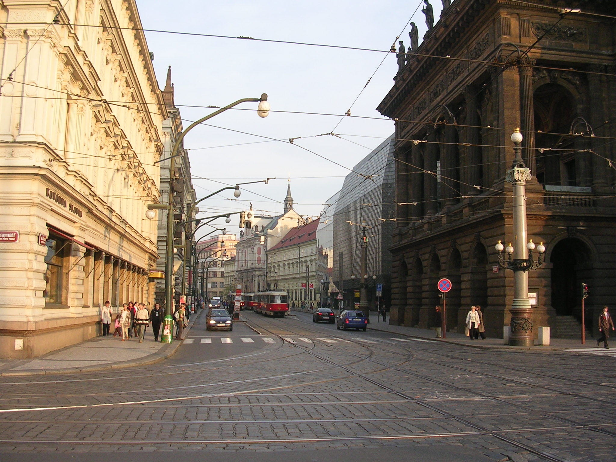 New Town and Old Town, Prague.